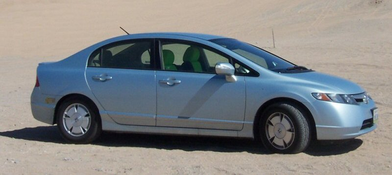 A 2006 Honda Civic Hybrid. Original image tweaked to remove distracting sign & poles.